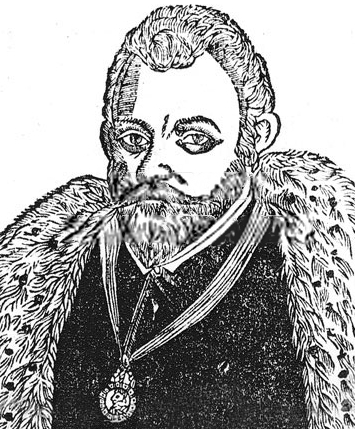 Jerzy Mniszech, voivode of Sandomierz Voivodship and starost of Lviv, father of Tsaritsa Maryna Mniszech.